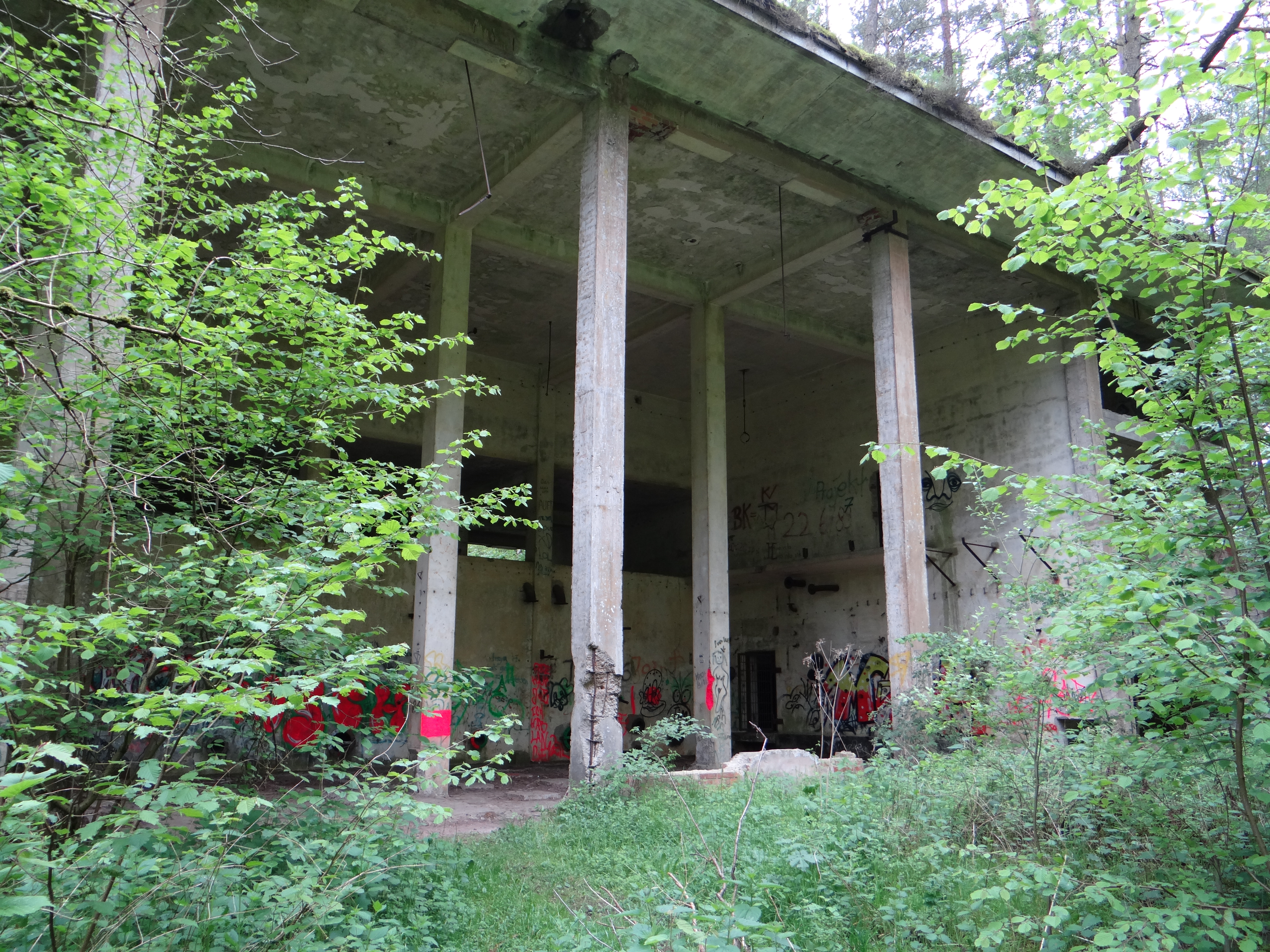 Riuns of an industrial building (ammunition factory) near Dörverden, Germany.